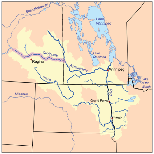 This is a map of the Red River of the North drainage basin, with the Qu'Appelle River highlighted. I, Karl Musser, created it based on USGS and Digital Chart of the World data.